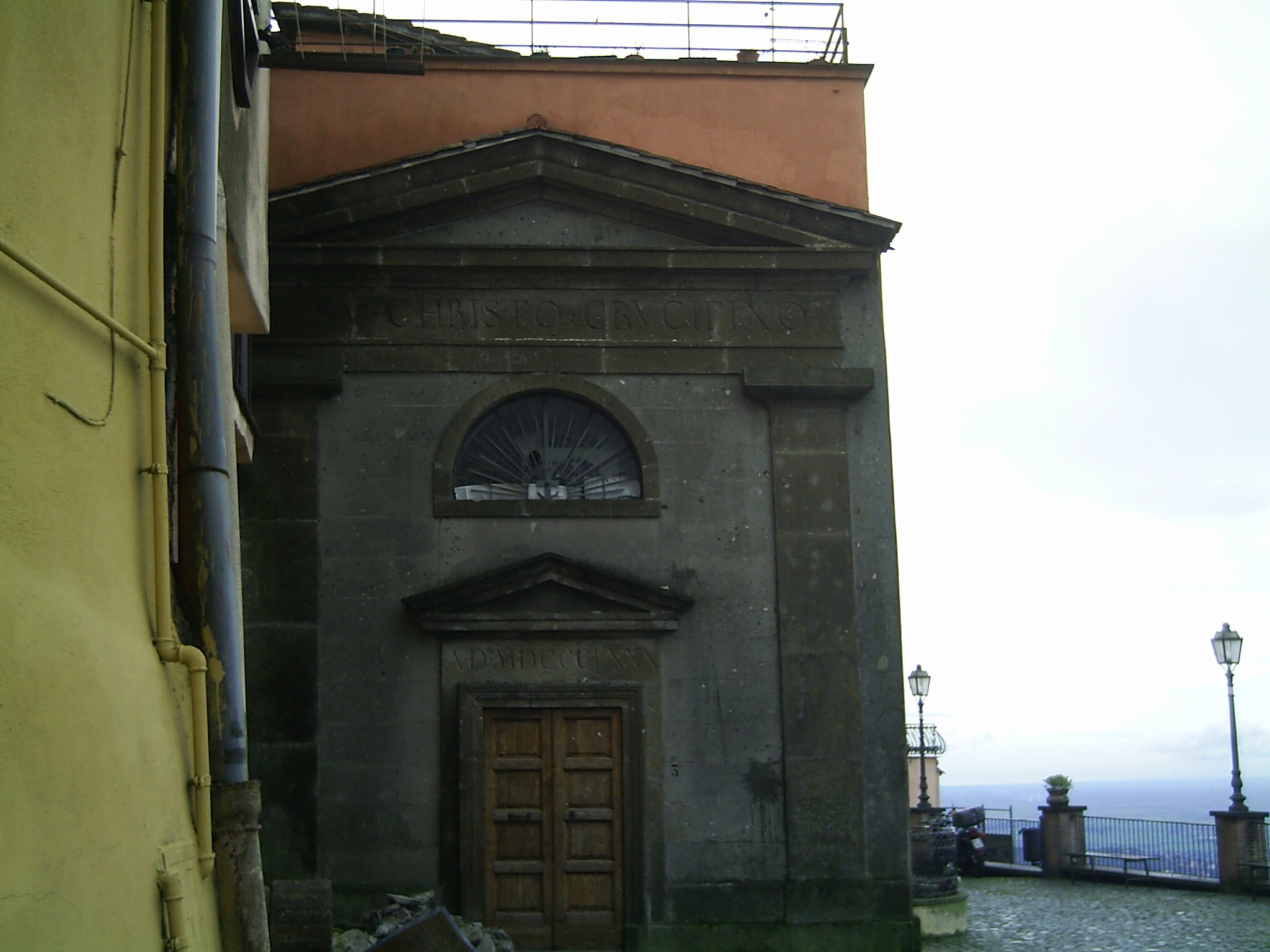 Façade of the Crucified Church - Rocca di Papa (RM)